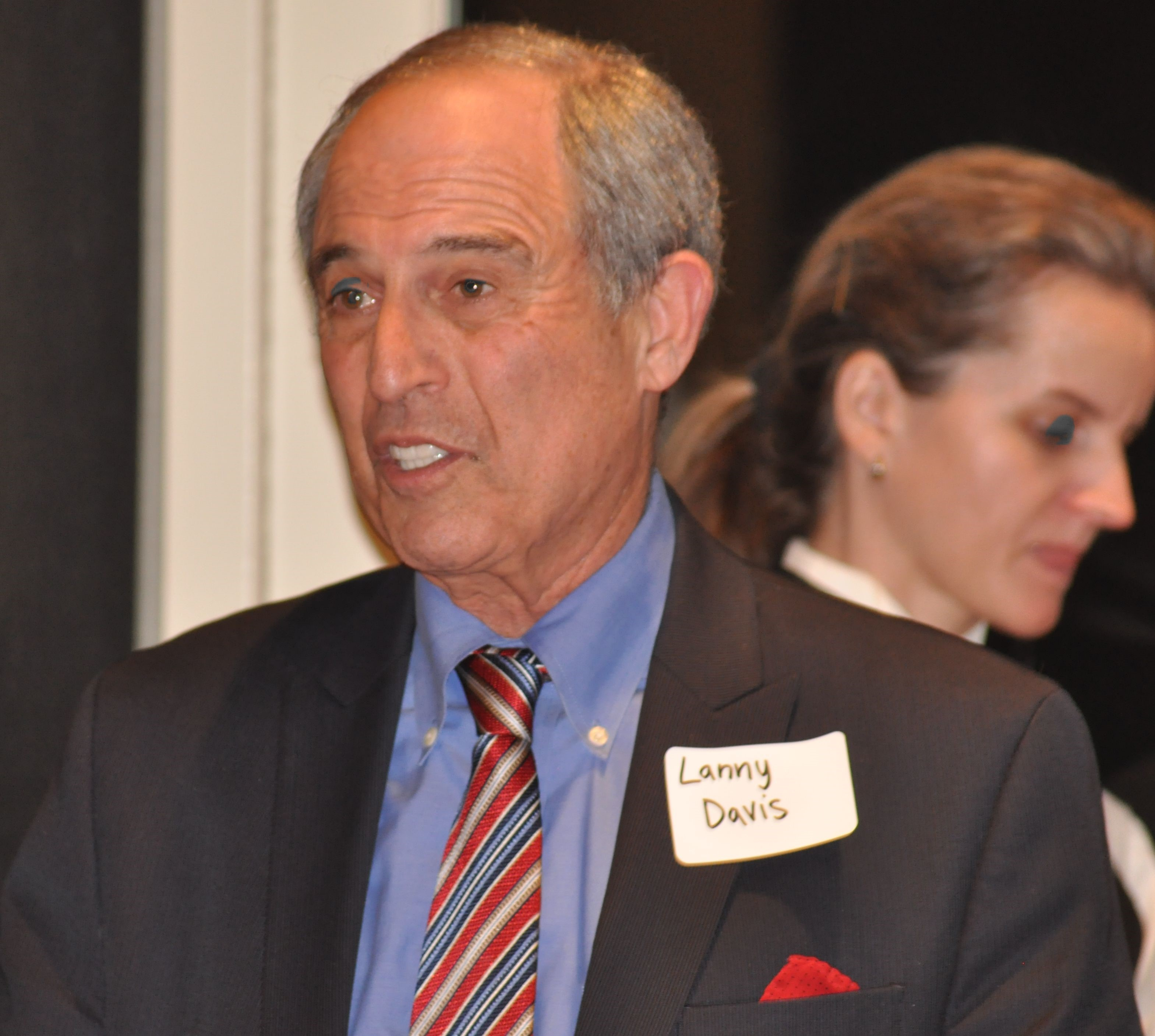 Ready for Hillary-0073